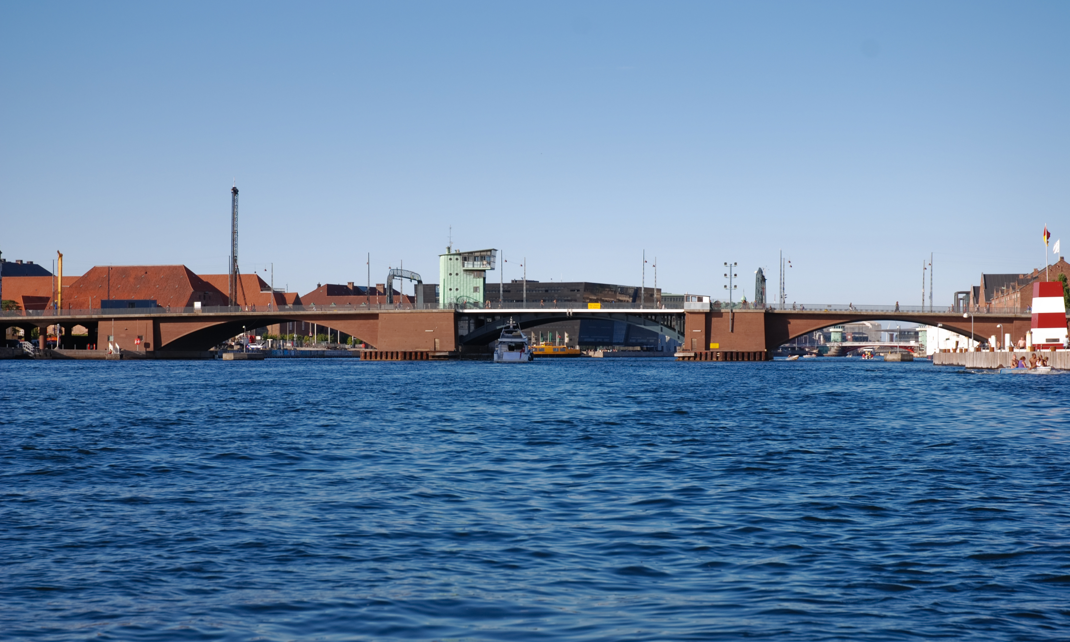 Langebro in Copenhagen, Denmark.